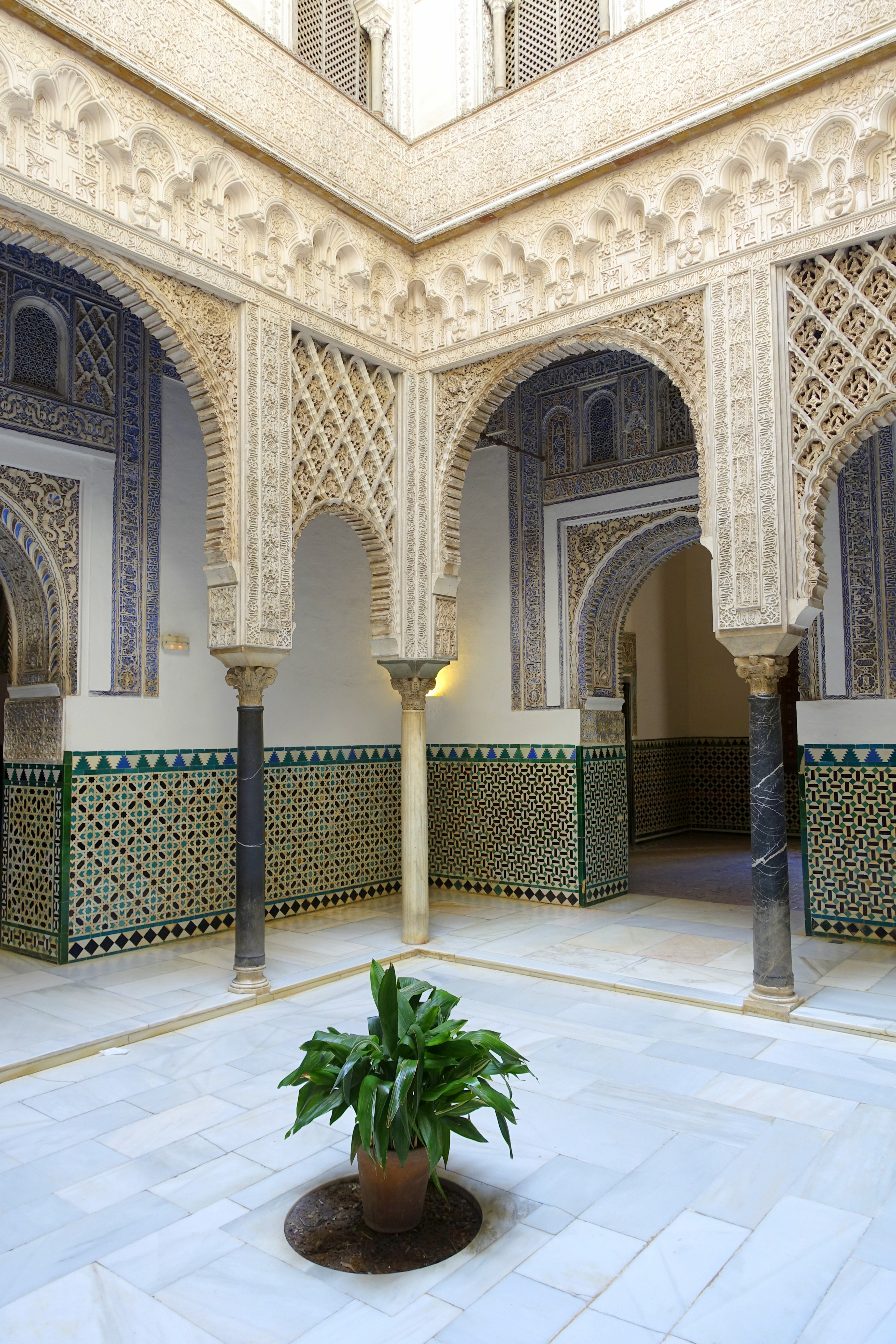 Pátio de las Muñecas, Palacio de Pedro I - Alcázar of Seville, Spain.